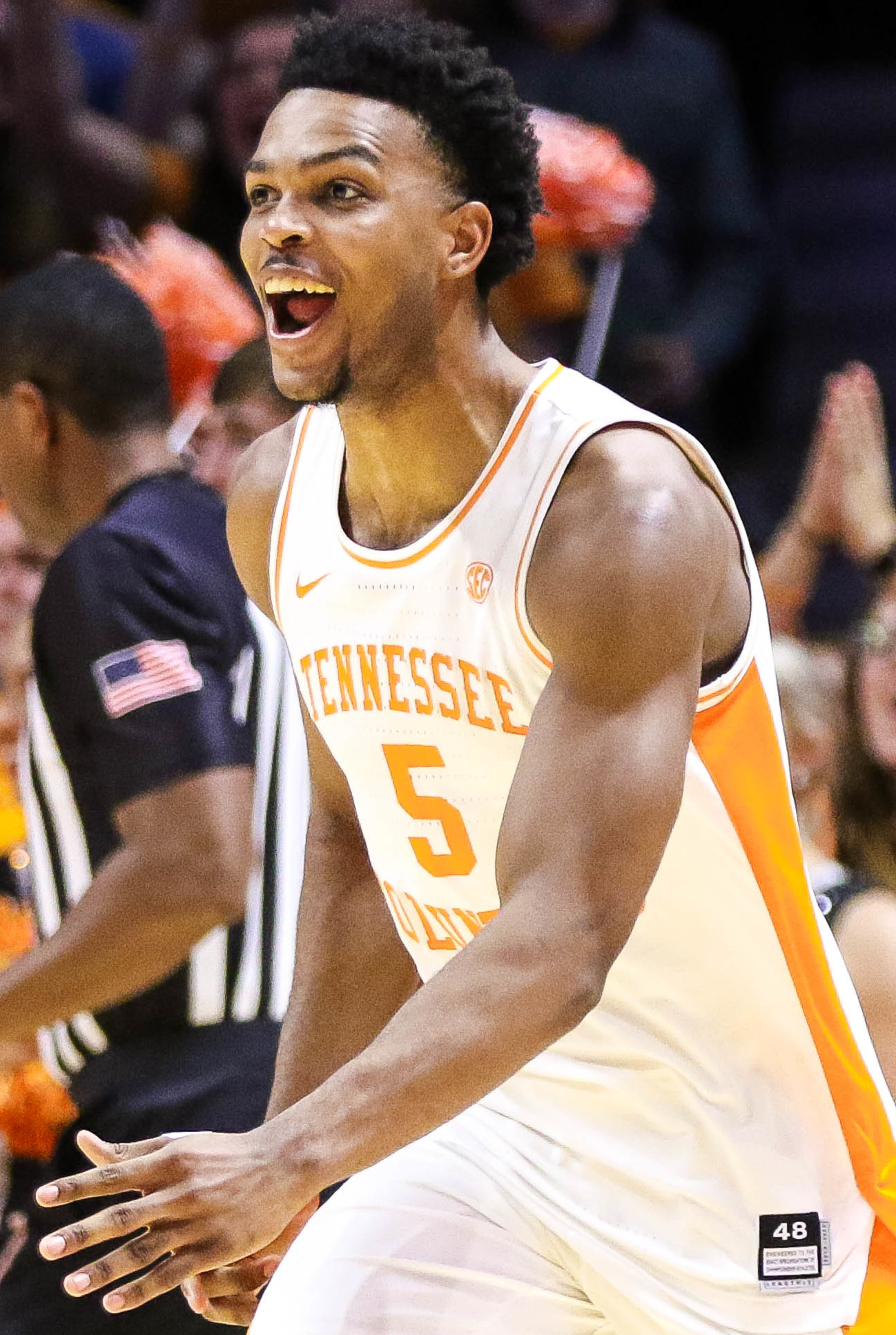 Photo by Katie Dugan